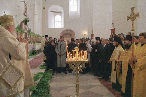 THE SOLOVETSKY ISLANDS, ARKHANGELSK REGION. President Putin attending an evening divine service at the Solovetsky Saviour-Transfiguration Monastery.